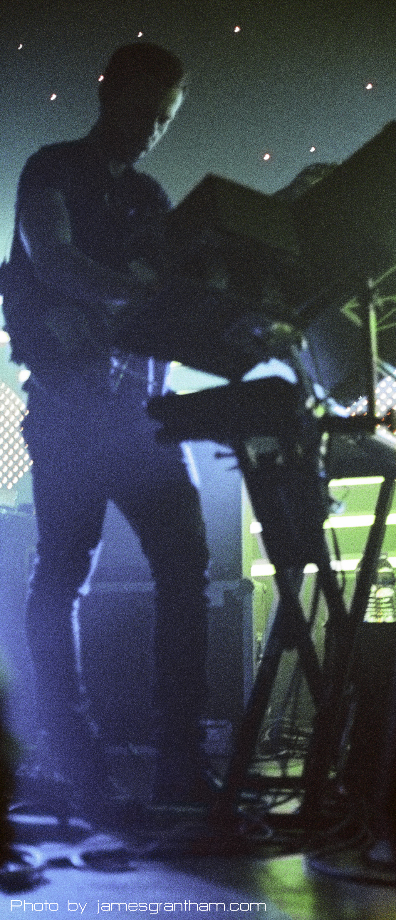 Photo taken by of M83 Live Show, 09-30-2012, The Norva, Norfolk, VA.